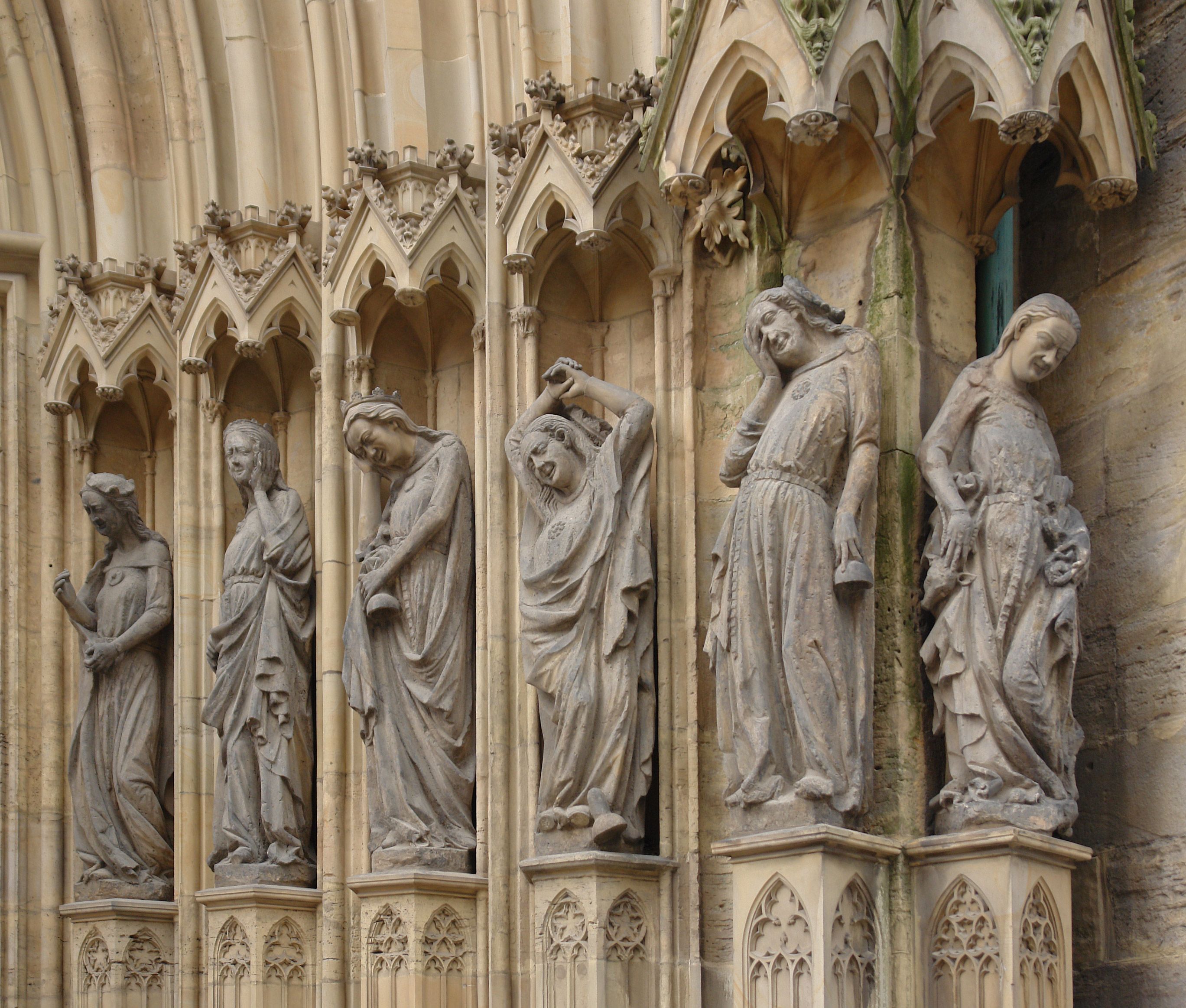 Erfurt, Thuringia, Germany Erfurter Dom Side Entryen:Parable_of_the_Ten_Virgins (5 left women) the woman on the right is called Synagoge